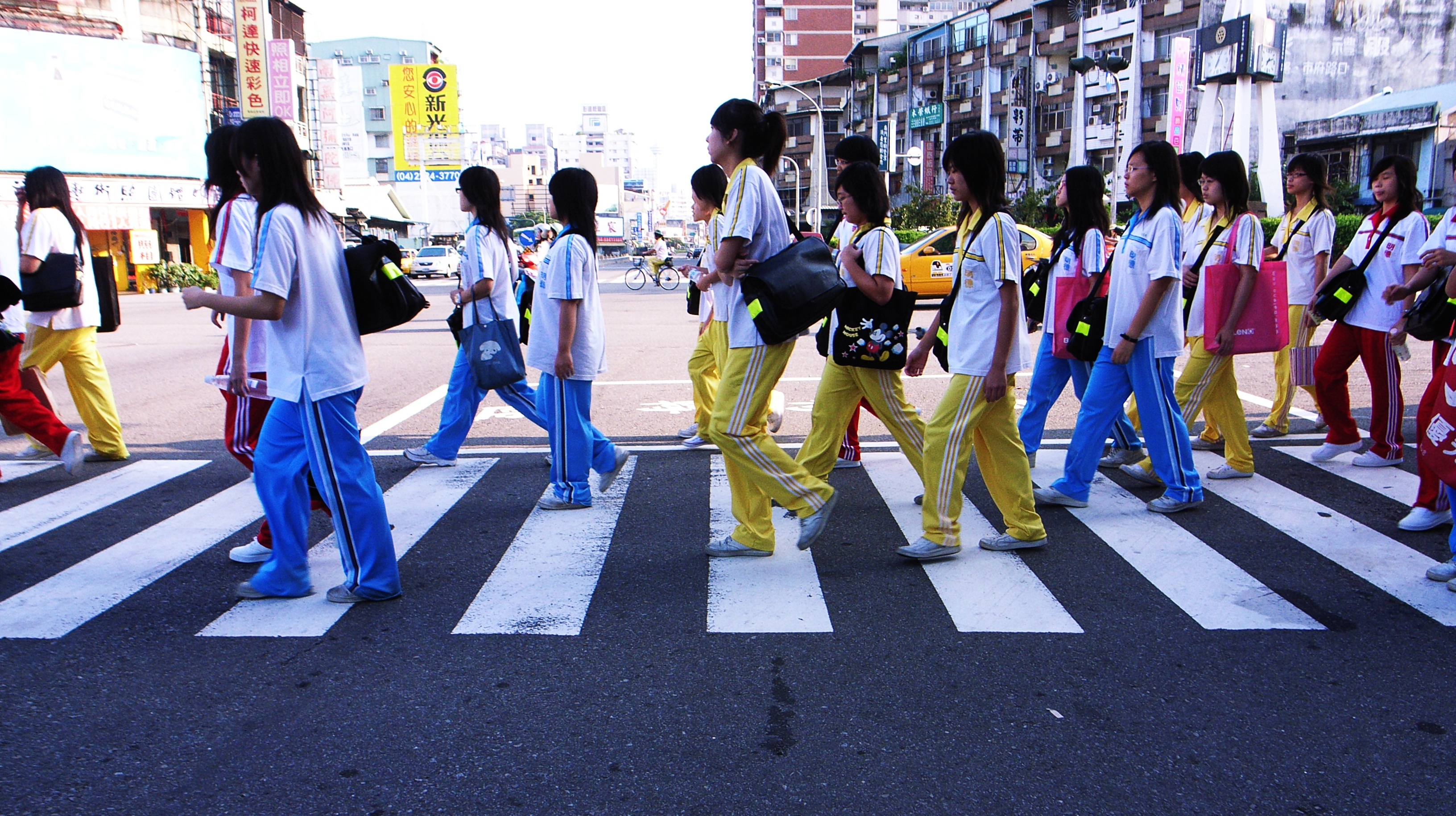 The students of Ming-Der Senior High School crossing the road in Taichung City.